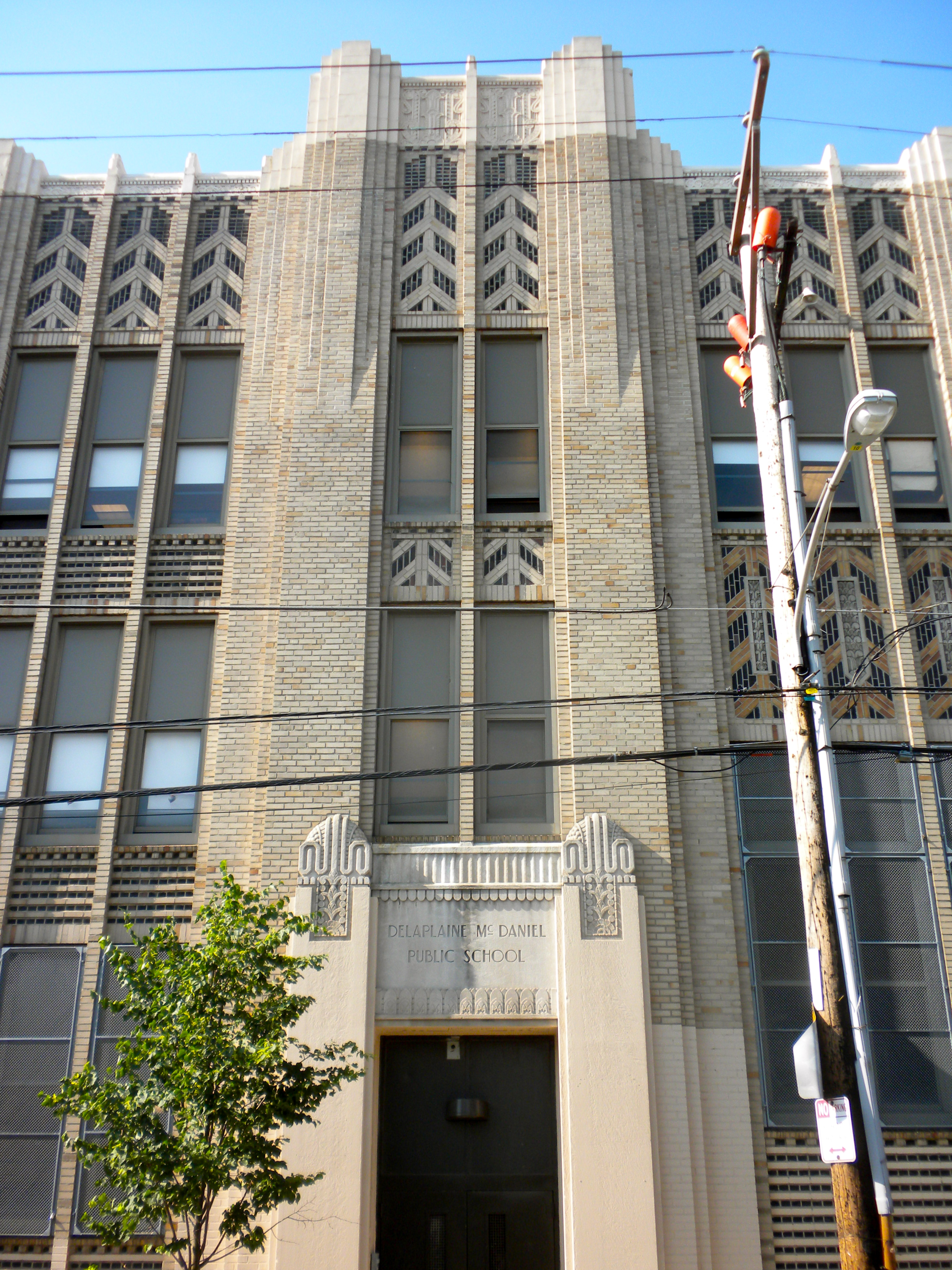 Delaplaine McDaniel School on the NRHP since December 4, 1986. At 1801 South 22nd Street, in Point Breeze neighborhood of south Philadelphia. Note there is an elementary school (perhaps private) with a music school attached, that is also called Delaplaine McDaniel, just a few blocks south. But by the address this is the one on the NRHP.